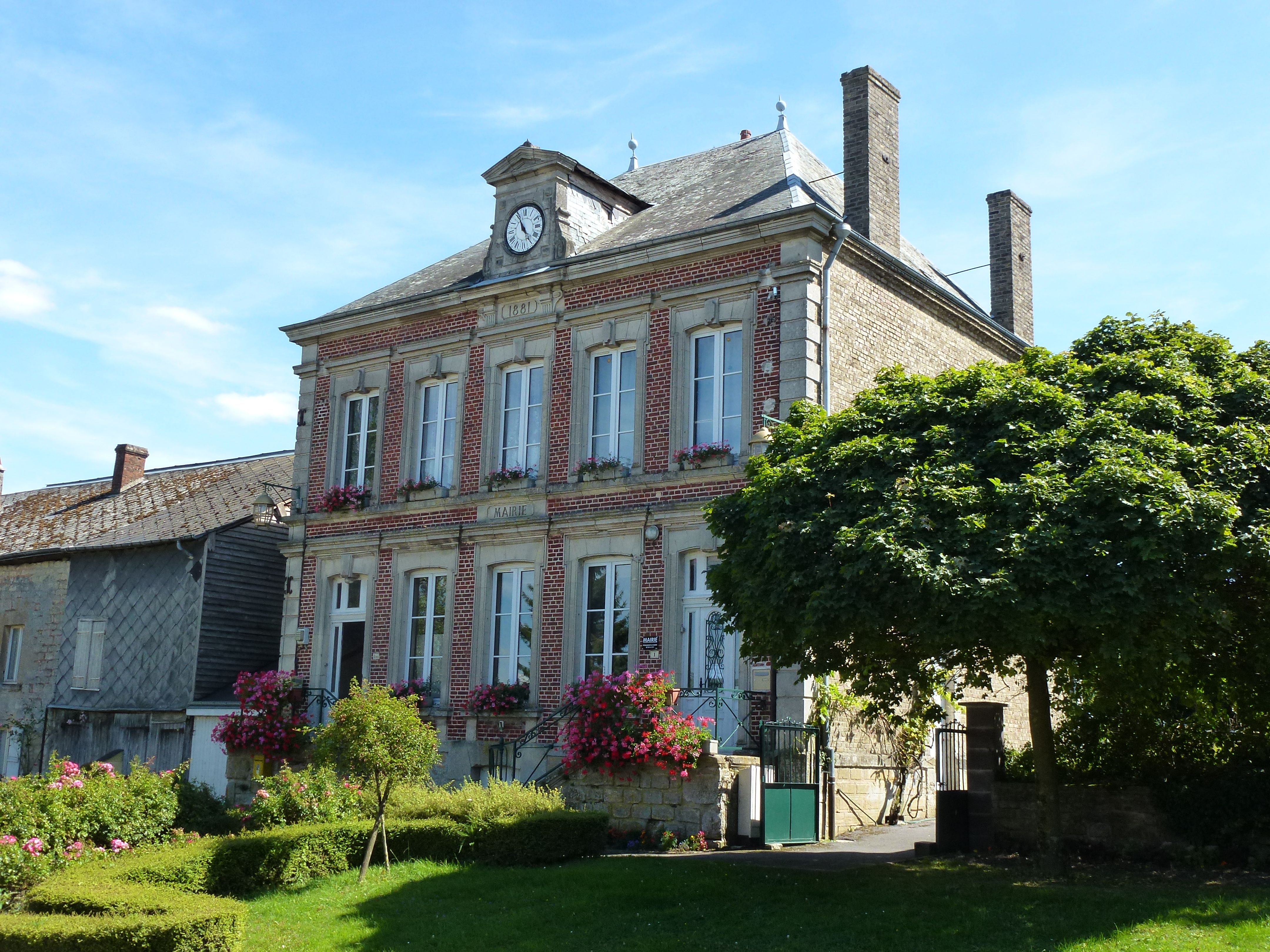 Puiseux (Ardennes) mairie